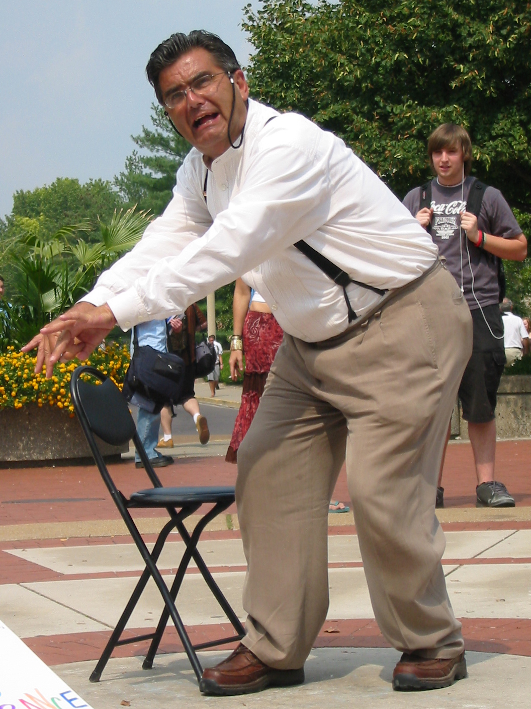 Jed Smock taken on the campus of the University of Missouri-Columbia on 9/8/2005.